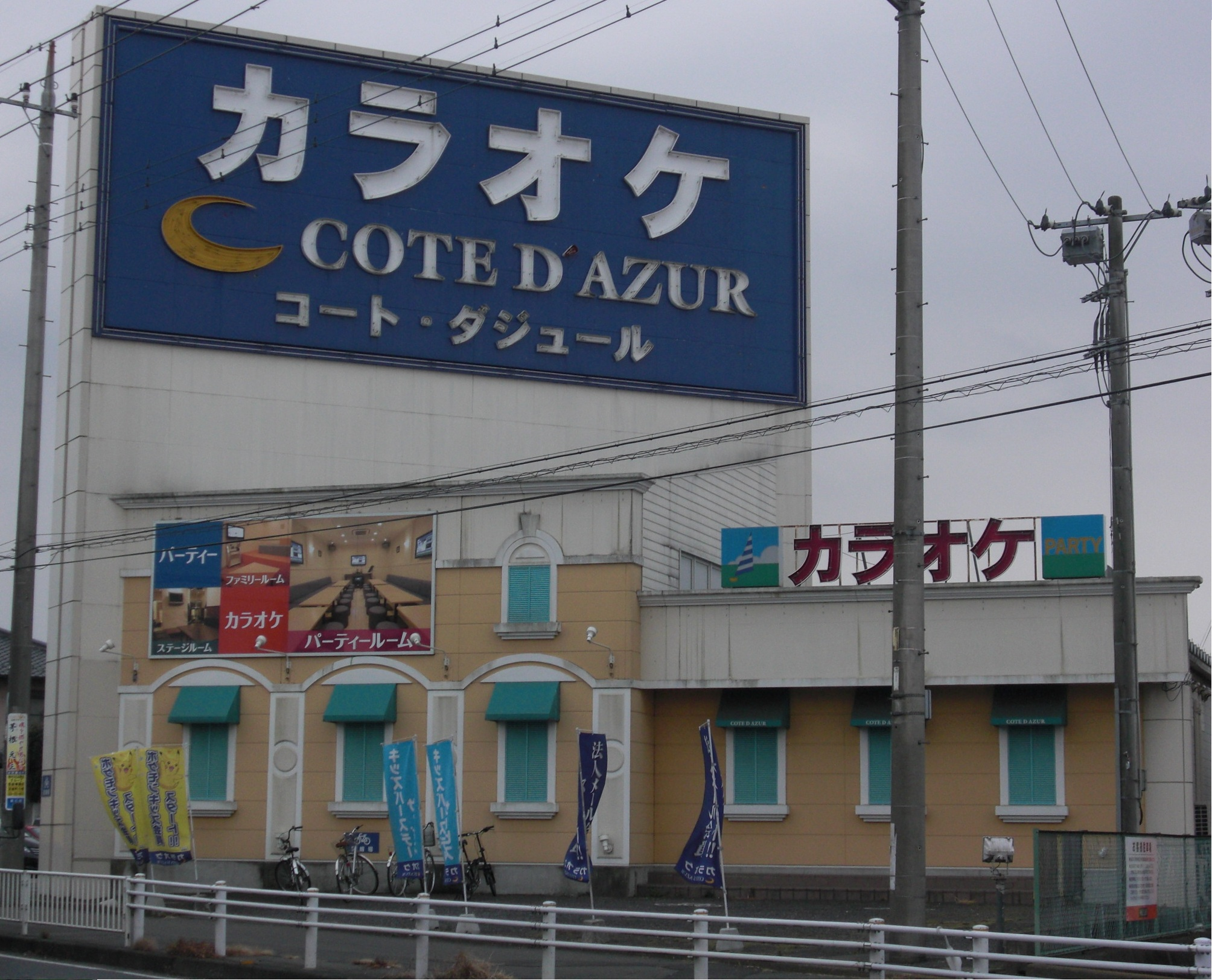 This is a karaoke shop "COTE D'AZUR" in Ibaraki prefecture, Japan.